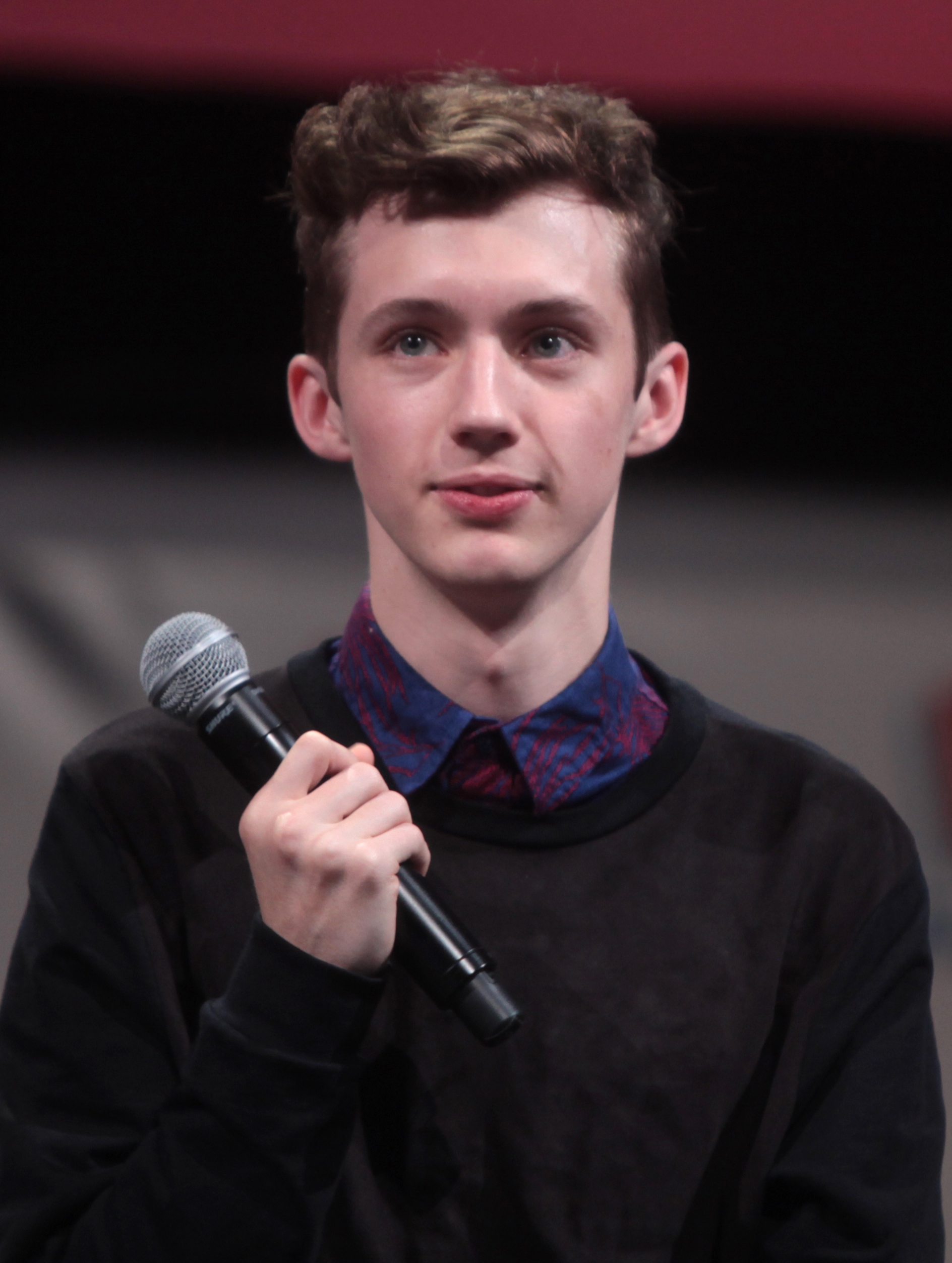 Troye Sivan speaking at the 2014 VidCon on June 26, 2014.